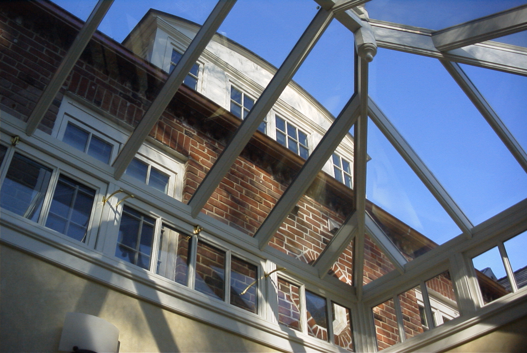 Internal View of Roof Lantern